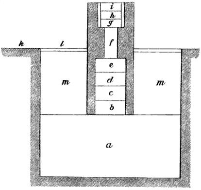 Side view of a cambarysu. a: packed coarse sand b: fine sand c: pieces of wood d: pieces of bone e: pulverized mica f: empty space g: leather h: wood I: rubber k: soil l: rubber m: bits of wood, leather, etc See also File:Cambarysu top and hammer.png.